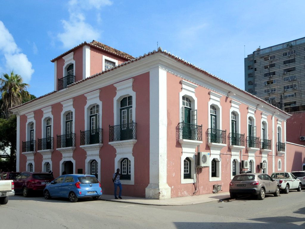 The Museu Nacional de Antropologia in Luanda, Angola, occupies the 18th century Palacio da Nobreza. Masks, tools, weaponry, clothing, and musical instruments are on display.